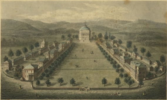 University of Virginia from source at : "Comments: Rotunda and Lawn, from the south with cattleguard at foot of Lawn. Published by C. Bohn. "Entered according to Act of Congress, A. D. 1856 by C. Bohn in the Clerk's Office of the District Court of the United States, Dist. of Columbia." Engraved by J. Serz. 1 color engraving, 4 b&w photographs, 2 page prints, 2 negative photostats." Image Filename: prints00018 Accession Number: RG-30/1/8.801 & Betts #46 Copy Negative Number: Neg 4x5 71, Neg 4x5 1891D